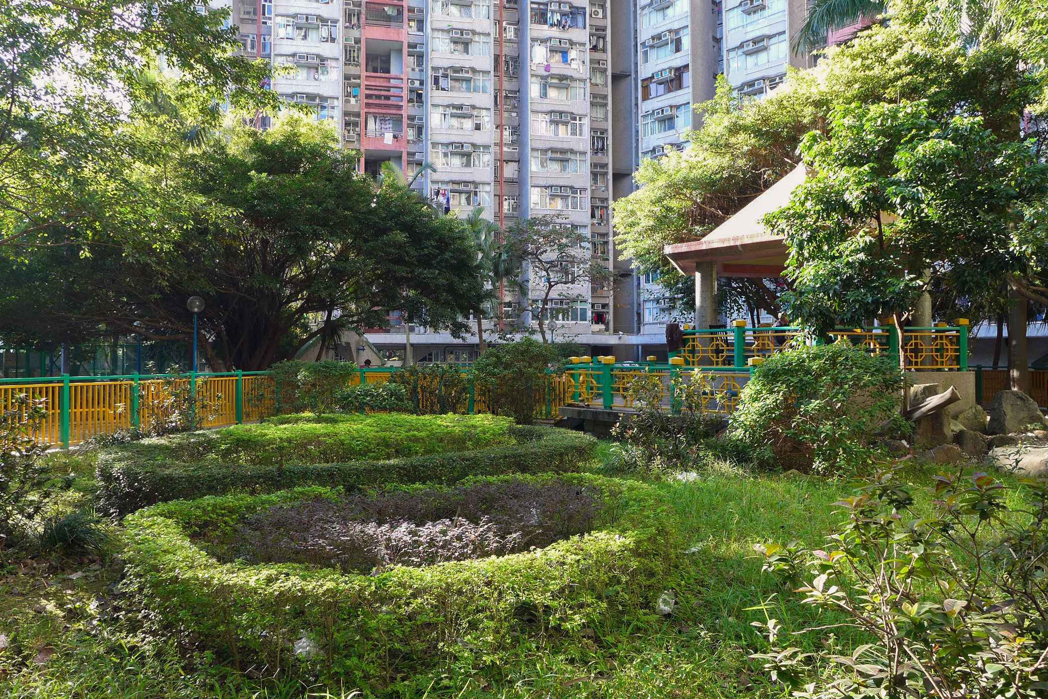 Tin Ping Estate Former pond